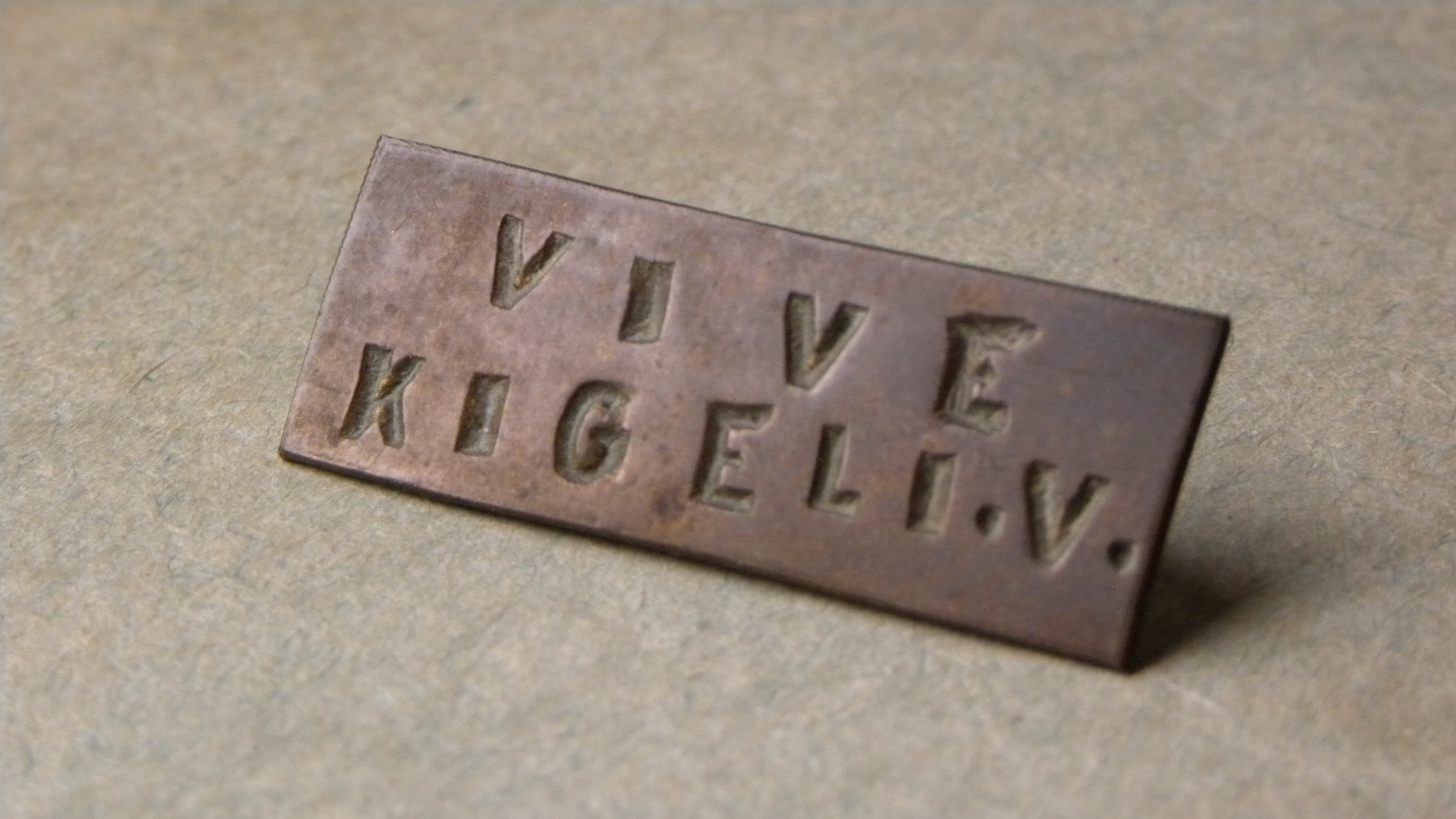 Brass lapel pin 'Vive Kigeli V' i-e : "Up with Kigeli V" (37x12mm, 4 grams). Original piece worn by Ruandese in 1959.